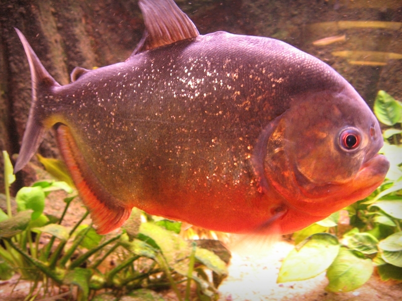 Adult red bellied piranha of circa 23 cm